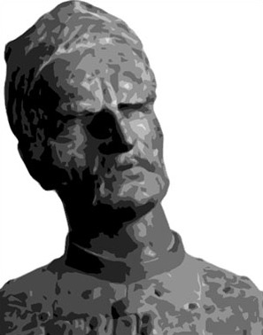 Retouched from photography of the statue of Vuk Mandušić, a Morlach leader, done by Risto Stijović (1894-1974) in 1946.